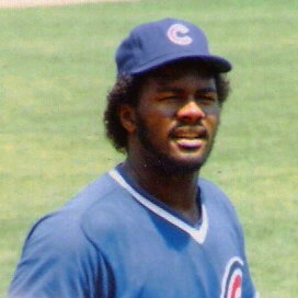 Cropped photo of Lee Smith, 1985.